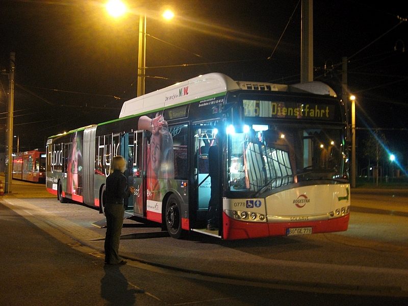 Solaris Urbino 18 Hybrid Mk1 (Allison) bus (#0778) in Bochum, Germany. Built 2007, Bogestra Bochum operator (Bochum-Gelsenkirchener Straßenbahnen AG).